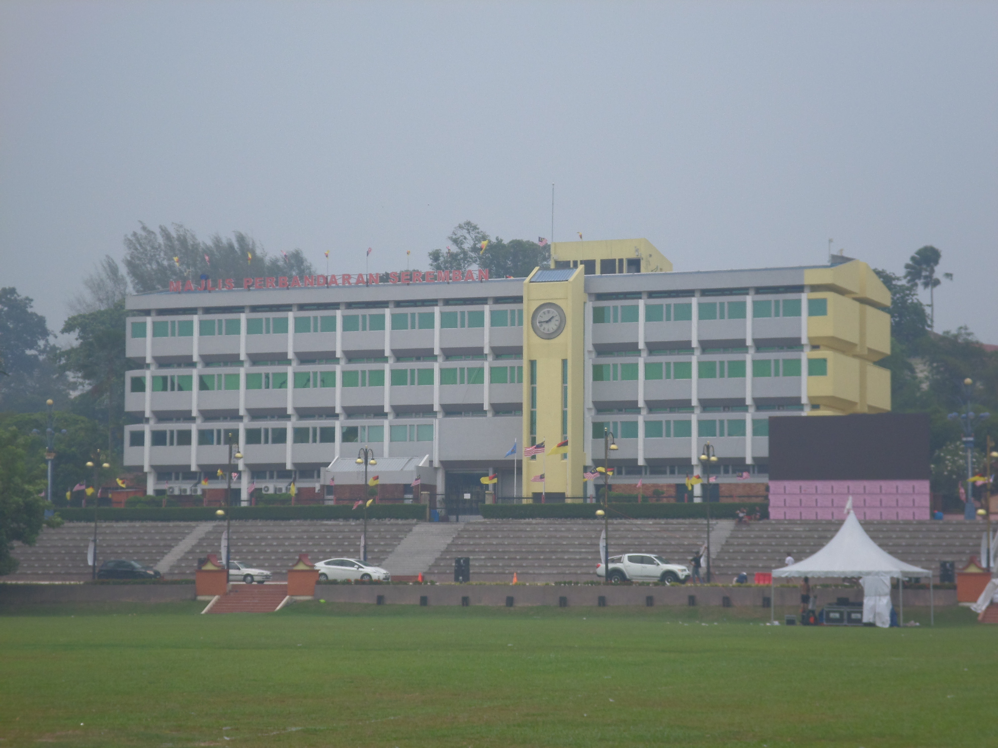 Seremban Municipal Council, Seremban, Negeri Sembilan, MalaysiaBahasa Melayu: Majlis Perbandaran Seremban, Seremban, Negeri Sembilan, Malaysia